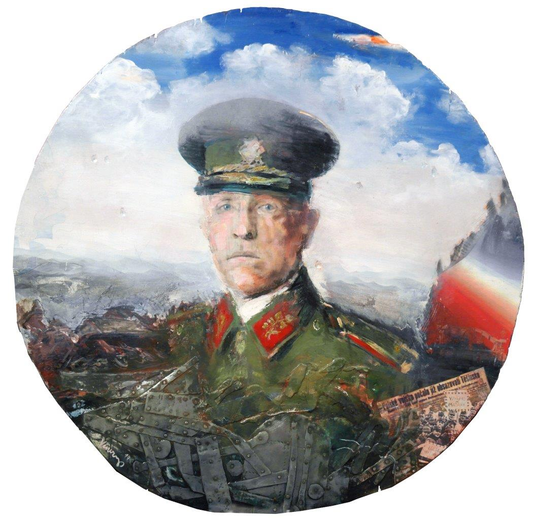 "General Josef Šnejdárek" - a portrait from a picture cycle called "Czech Memory" (This cycle is dedicated to dramatic historical events and personalities who wrote the history of the independent state of Bohemia and the Slovaks from its origin (1918) to the present (2018); form of wok of art: painting on wood - circular "shooting target" with a diameter of 85 cm; Author: academic painter Pavel Vavrys; year: 2014.